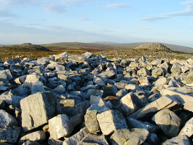 Cairns on Tair Carn Uchaf. Looking from on top of the southwest cairn, northeast towards the other 2.